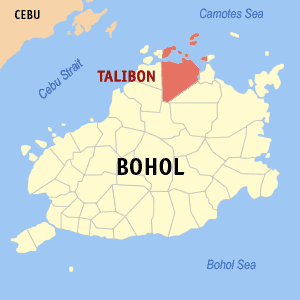 Map of Bohol showing the location of Talibon